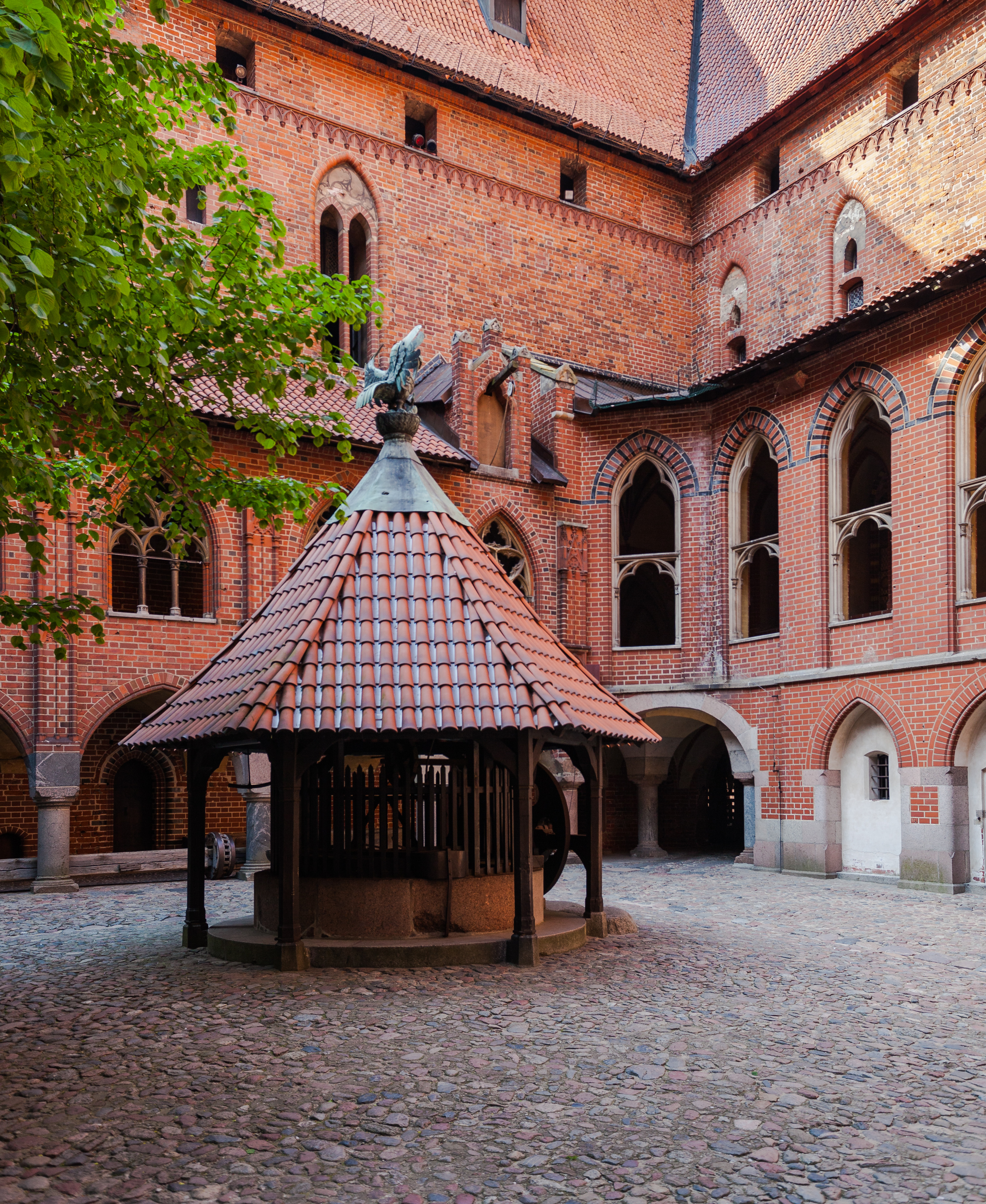 Malbork Castle, Poland